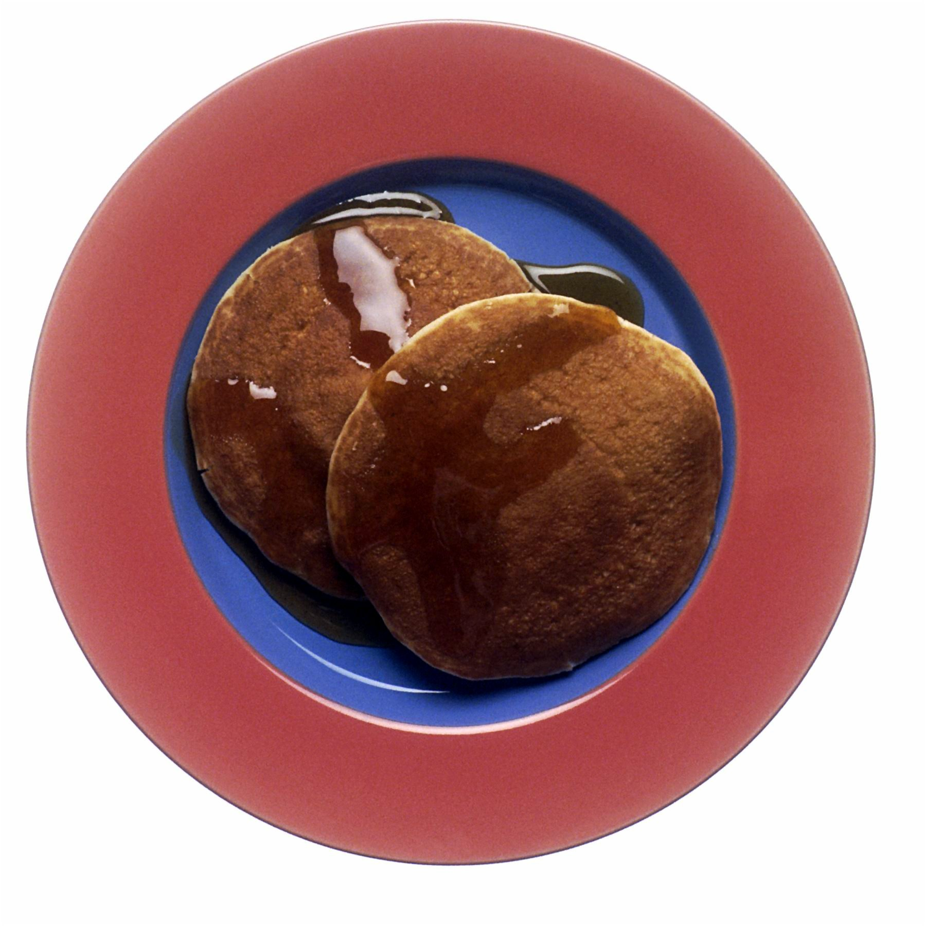 two single pancakes with maple syrup on a plate